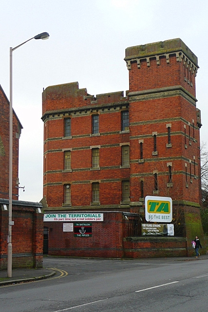 Brock Barracks This is the main entrance, on Oxford Road, of Brock Barracks, now HQ to the 7th Battalion The Rifles, a Territorial Army unit. Historically the Berkshire Regiment had been based here, before moving when amalgamated to form the Royal Gloucestershire, Berkshire and Wiltshire Regiment.